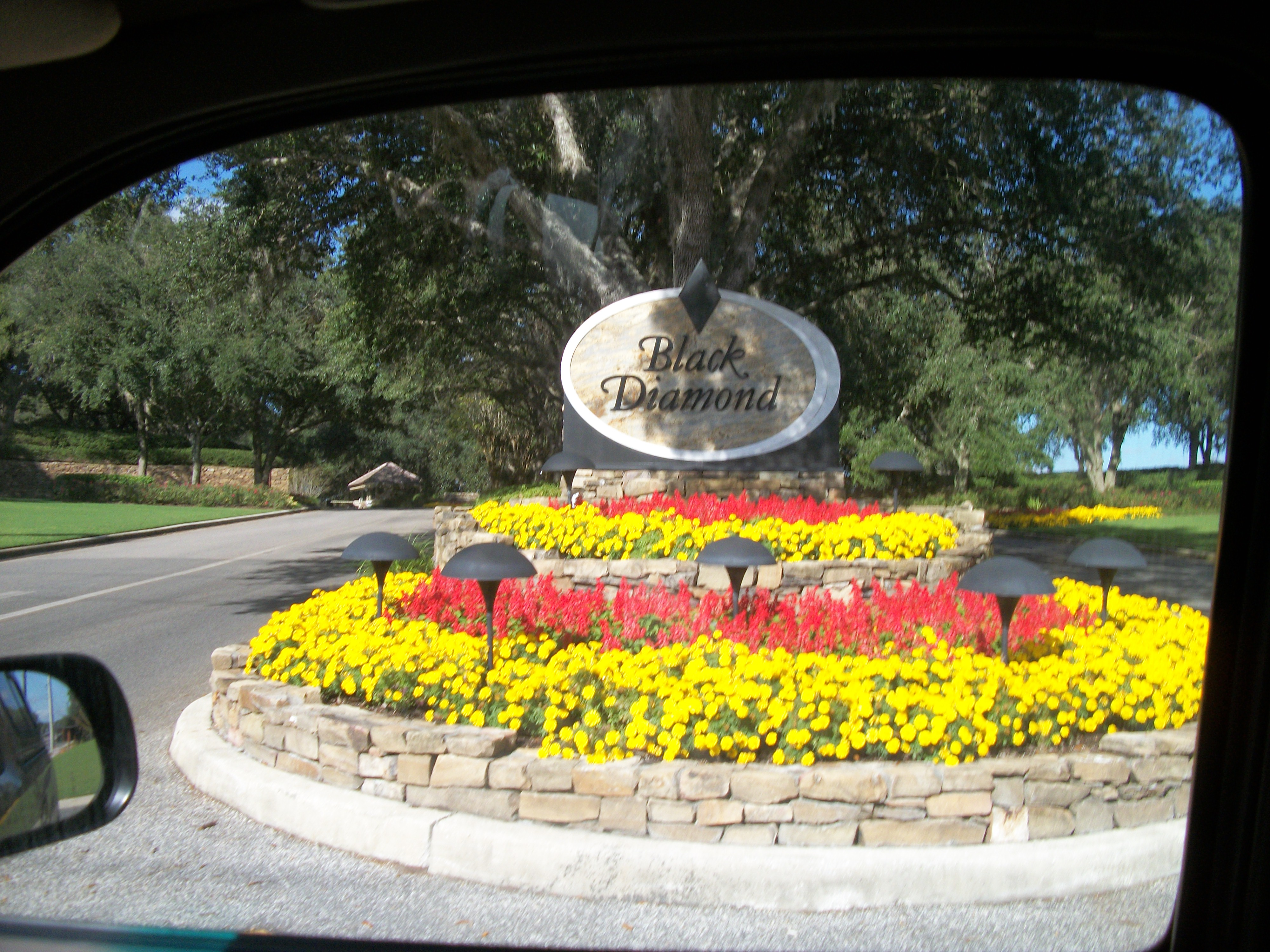 Sign for the entrance to Black Diamond, Florida, a Census-Designated Place and gated community off the west side of Citrus County Road 491 in Citrus County, Florida. Taken from inside a car between the median.